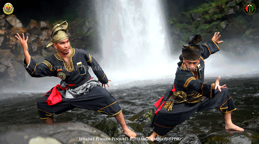 The original Malay Martial Arts of Ilmu Persilatan Penjurit-Kepetangan Melayu (IPPM).